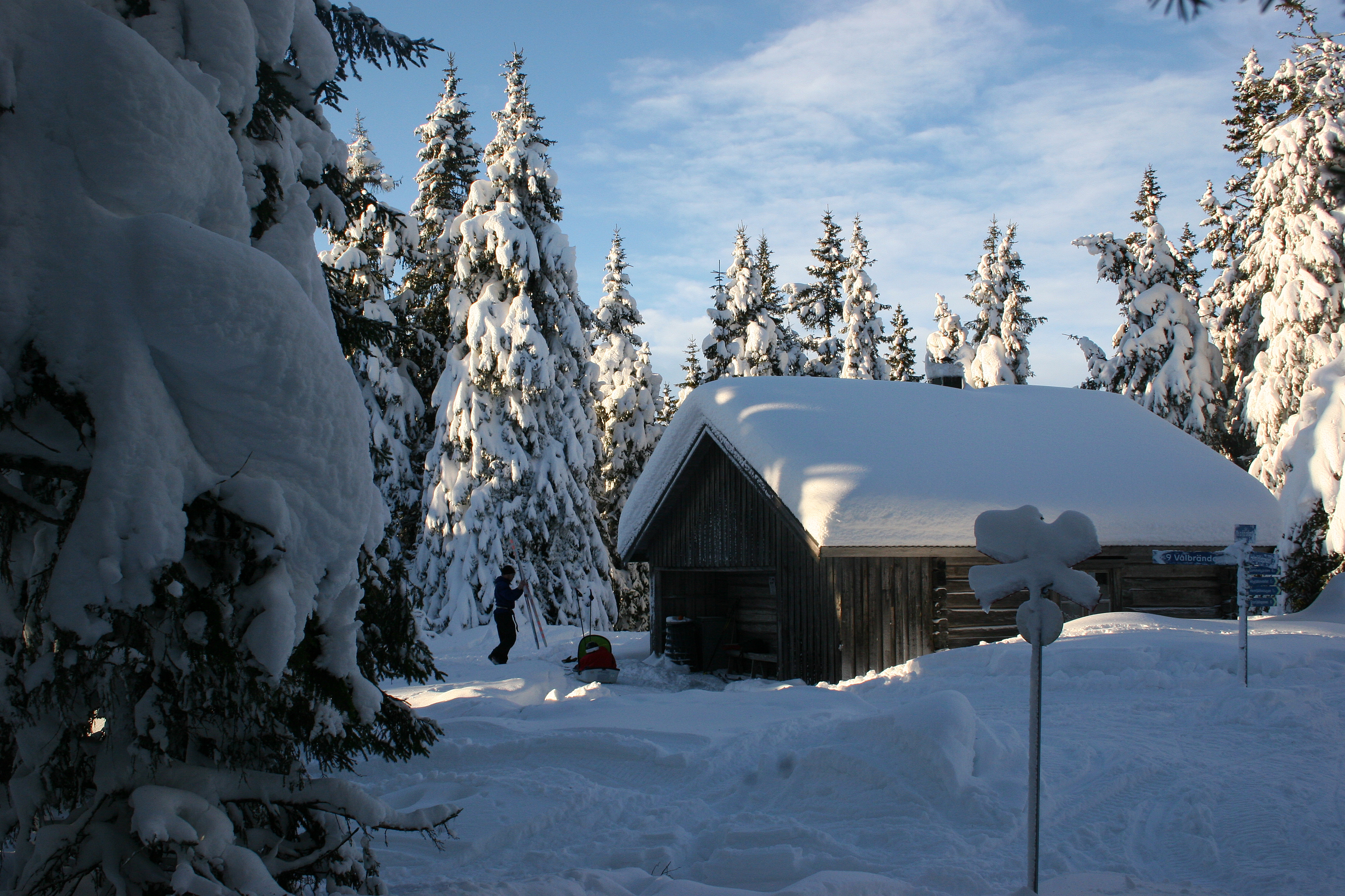 Mellanfjällstugan, an unmanned hiking cottage in Transtrand, Sweden.